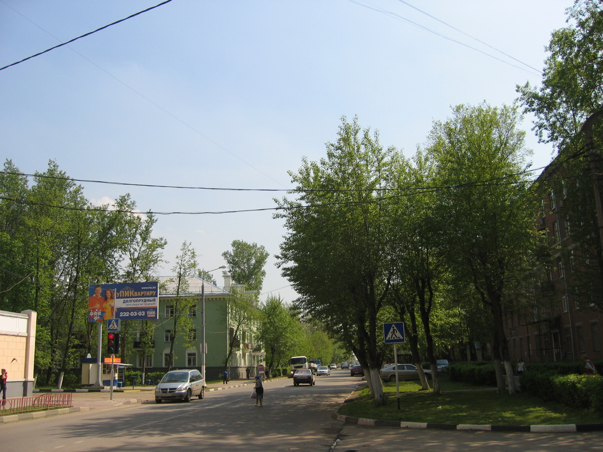 Dolgoprudny, Moscow Oblast, Russia